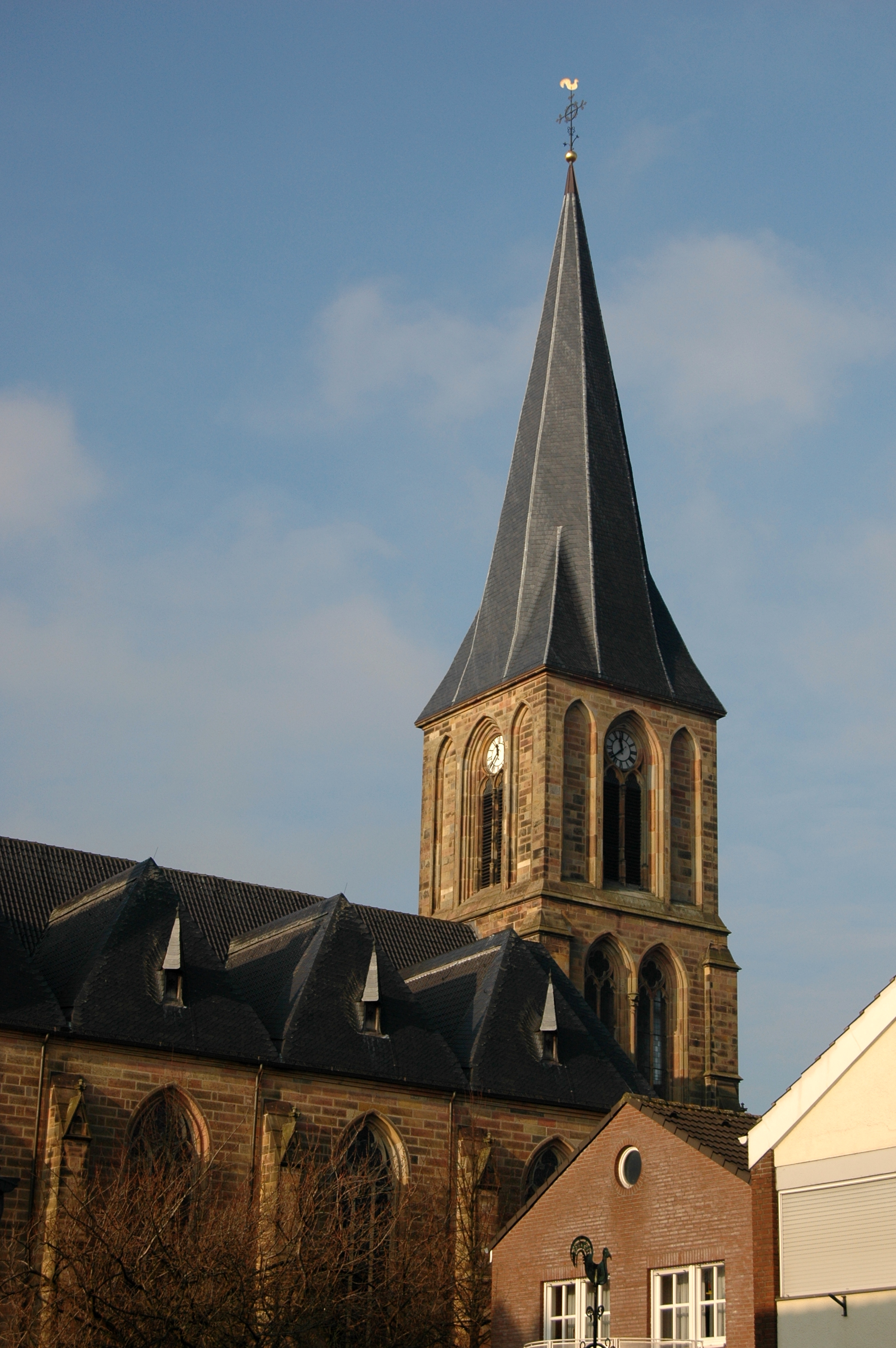 Picture of the Lambertikirche (a church) in Ochtrup, Germany.